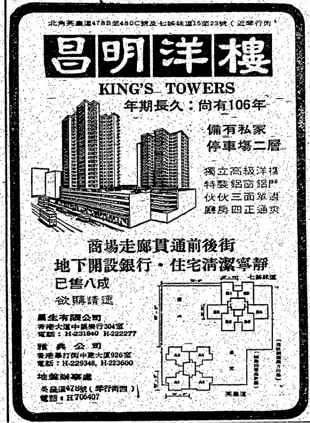 Ads post of the King's Towers, King's Road, North Point, Hong Kong - 昌明洋樓